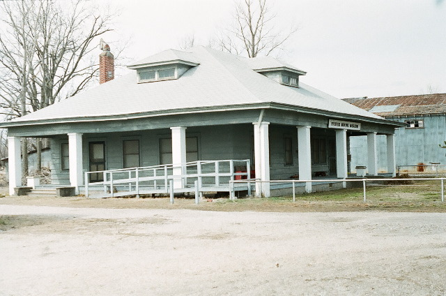 This mining museum in Picher is the former Tri State Lead and Zinc Ore Producers Association office and is on the National Register of Historic Places